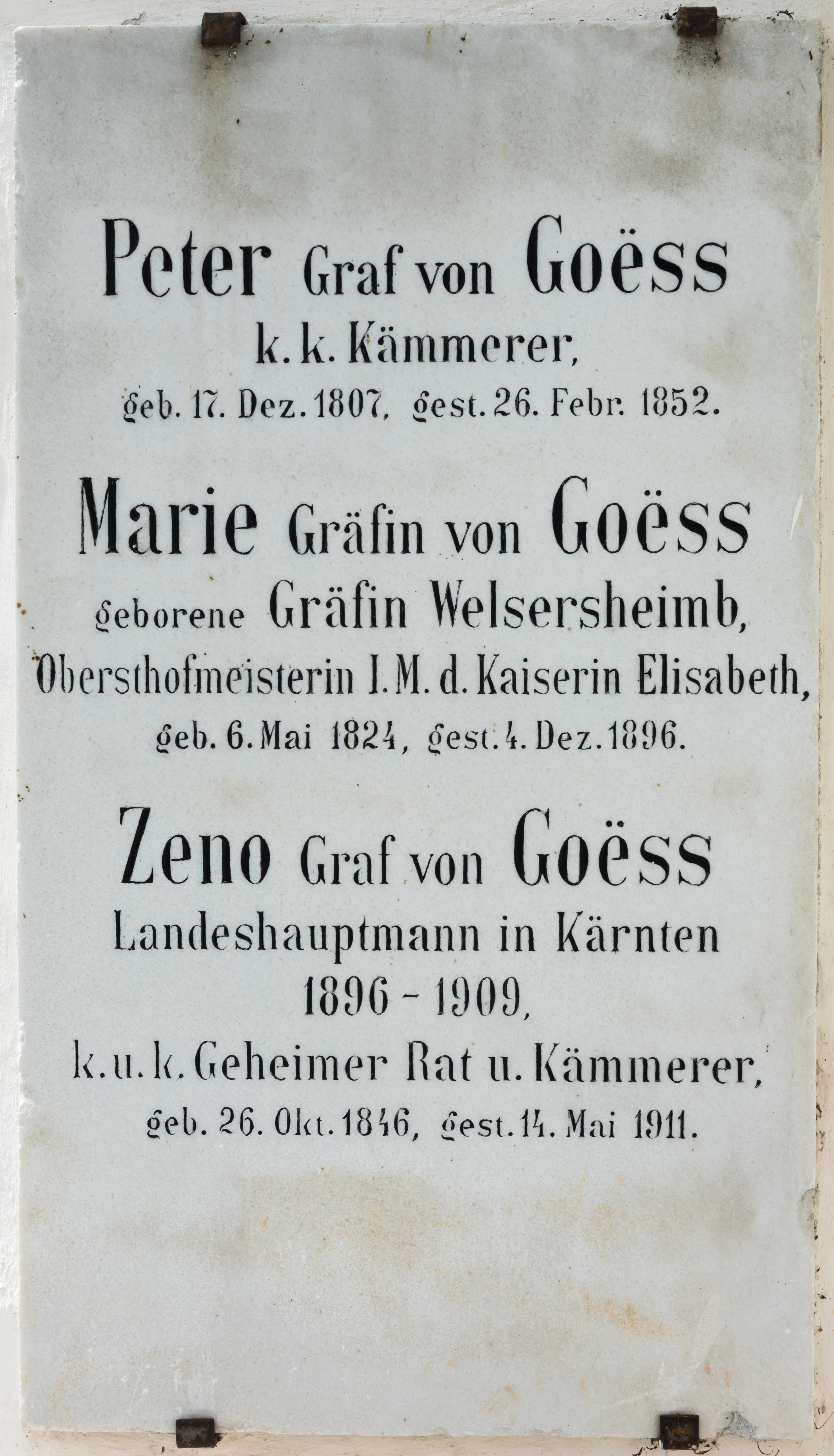 Gravestone of the Counts of Goëss at the parish church Saint Radegund in Radweg, municipality Feldkirchen, district Feldkirchen, Carinthia, Austria, EU